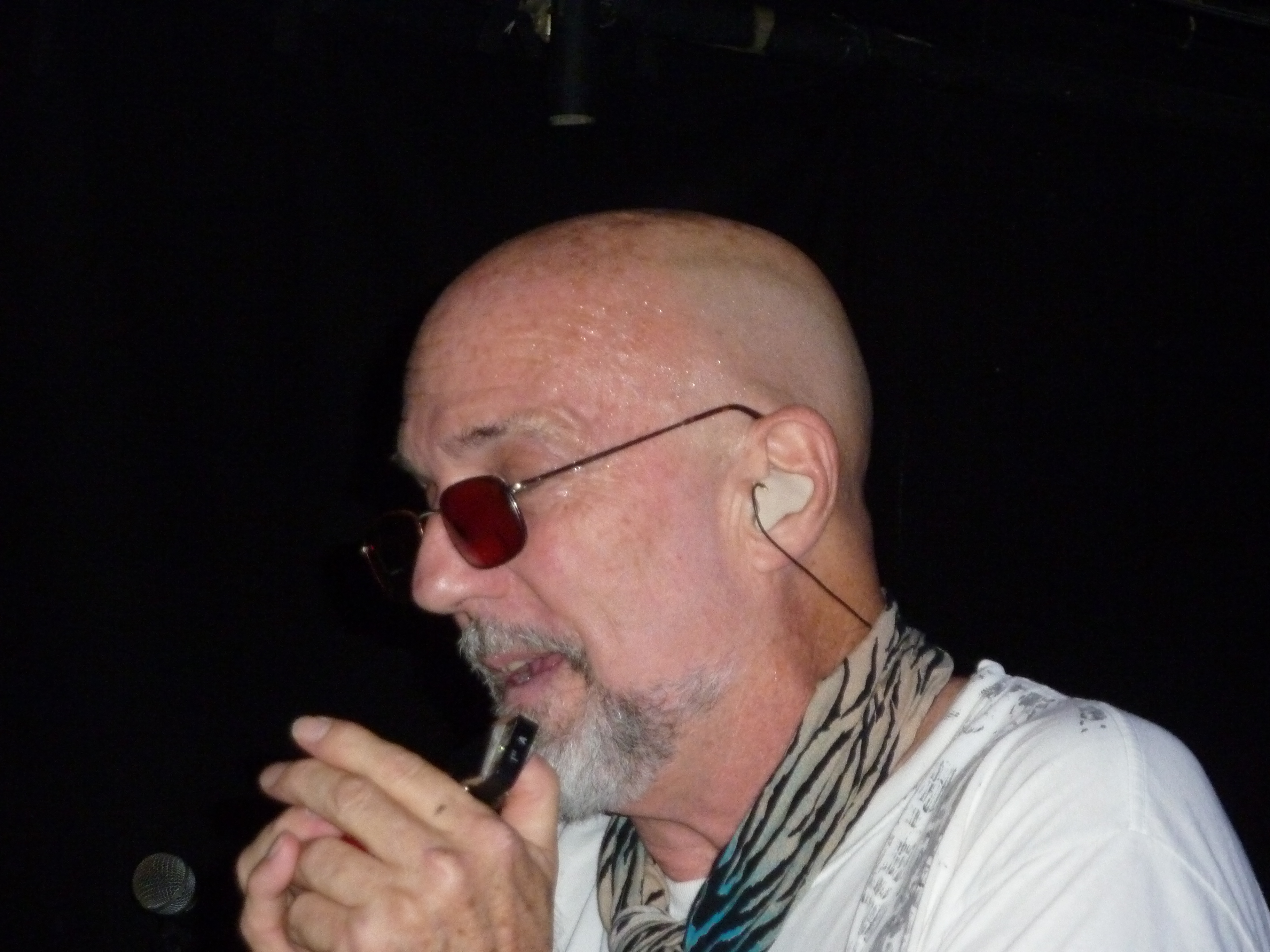 John French AKA Drumbo of The Magic Band on stage at the Zanzibar Club, Liverpool 29/9/2012